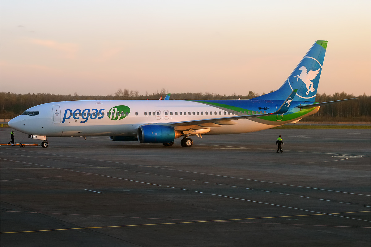 Pegas Fly, VP-BPY, Boeing 737-83N